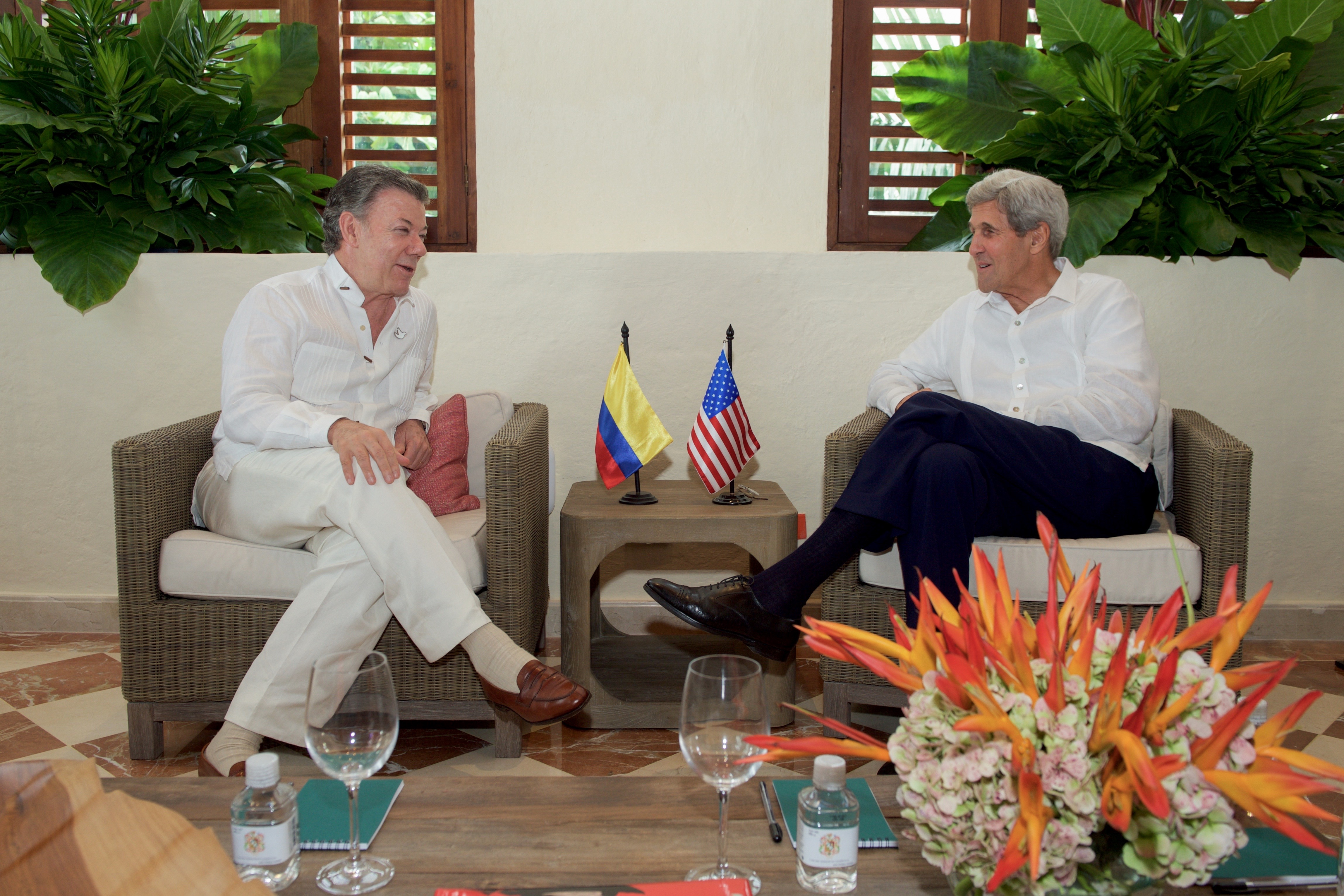 U.S. Secretary of State John Kerry sits with Colombian President Juan Manuel Santos at the Casa de Marques de Valdehoyos in Cartagena, Colombia, on September 26, 2016, as he visits the country to witness a peace ceremony between the government and the Revolutionary Armed Forces of Colombia (FARC) that ends a five-decade conflict. [State Department Photo/Public Domain]